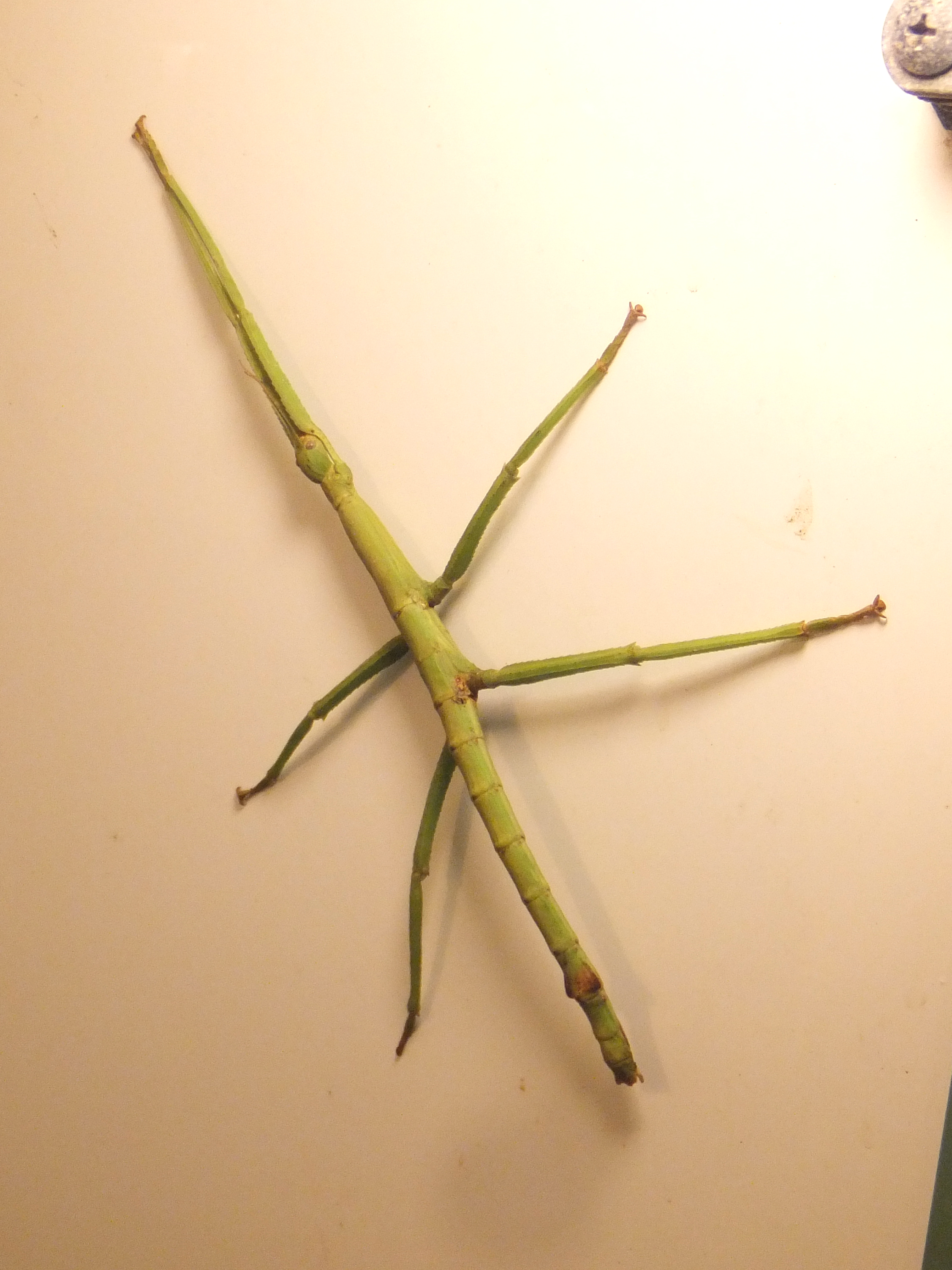 Pharnacia sumatrana photographed in Esapolis